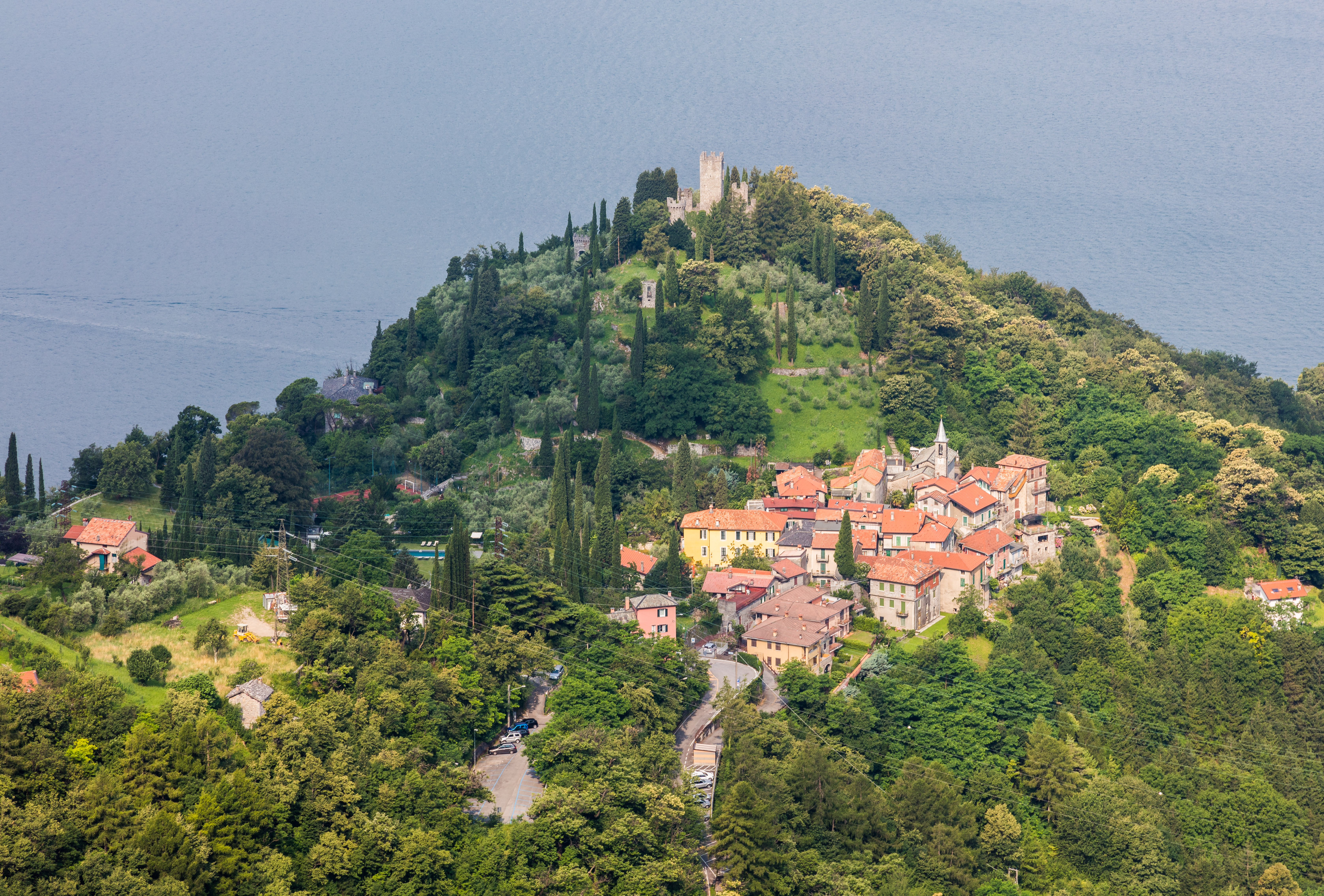 Vezio castle, Varenna, Italy This is a photo of a monument which is part of cultural heritage of Italy.